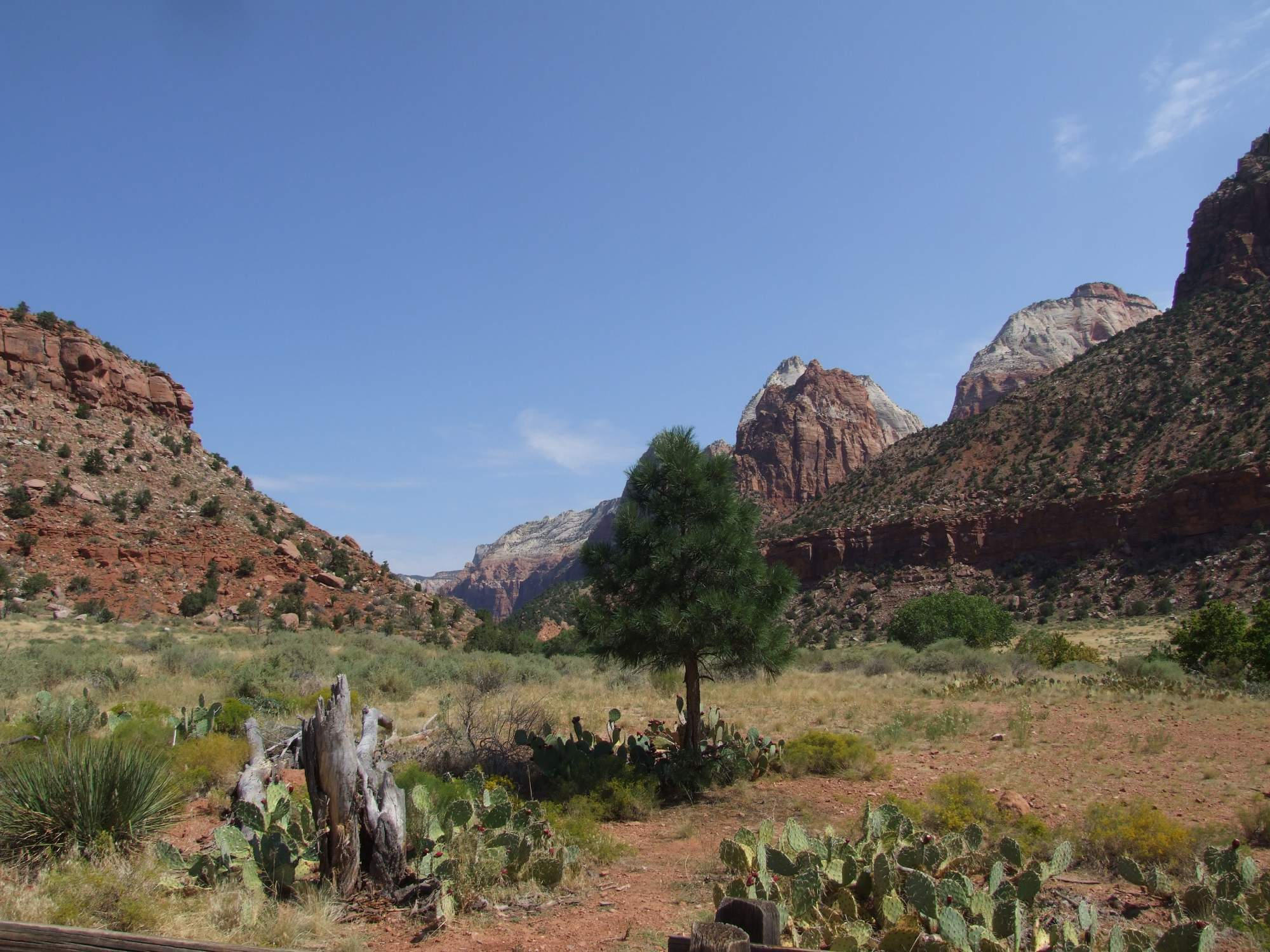 Zion National Park (2017)